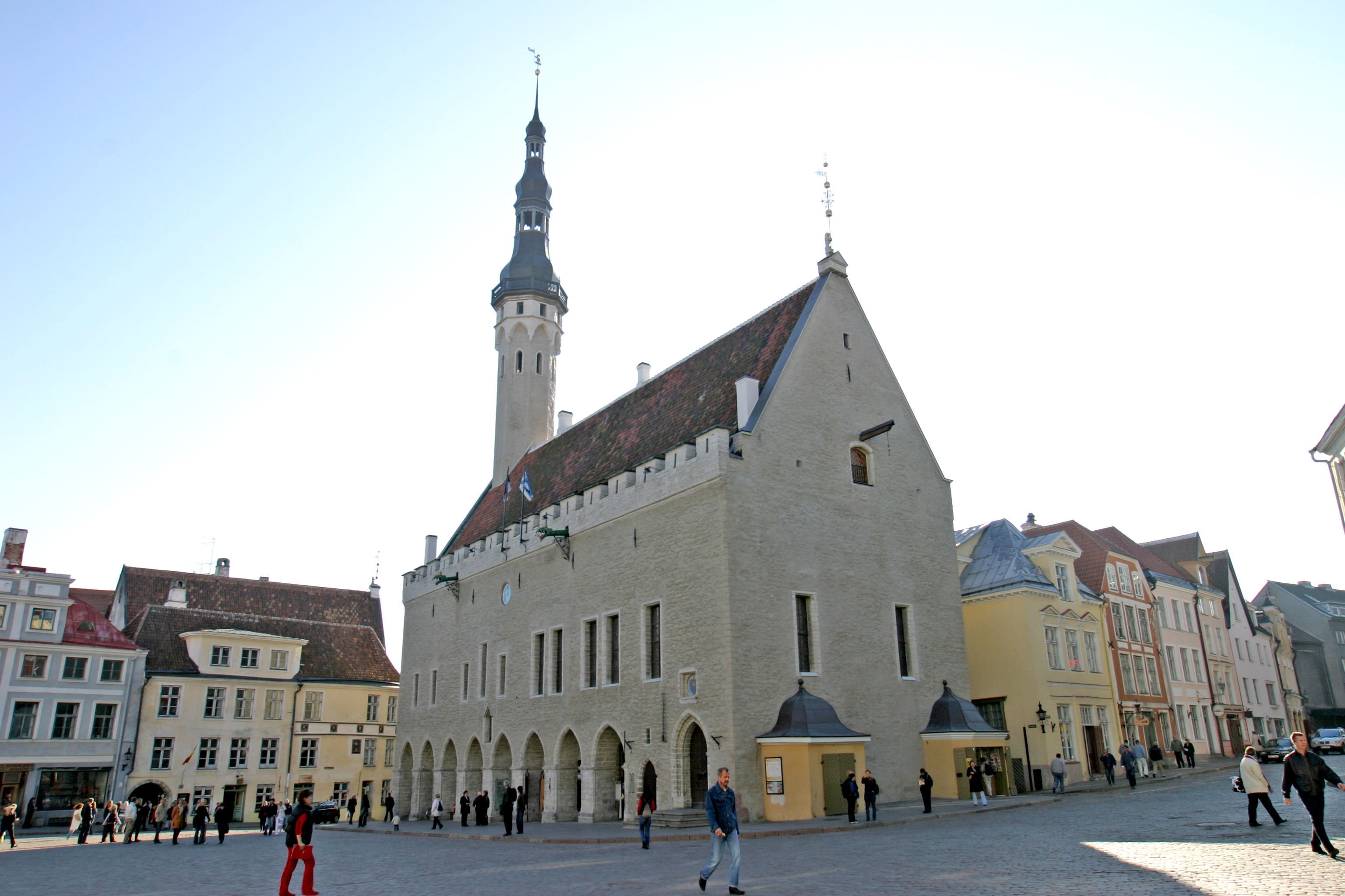 The Tallinn Town Hall